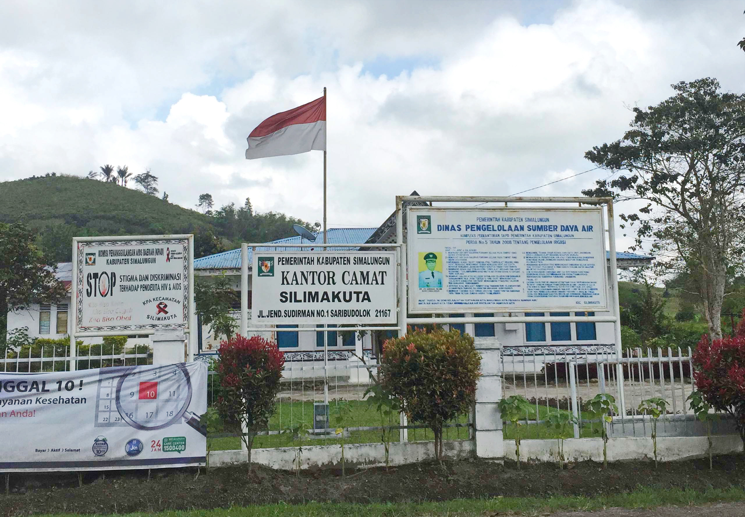 Office district of Silimakuta, Simalungun, Indonesia.